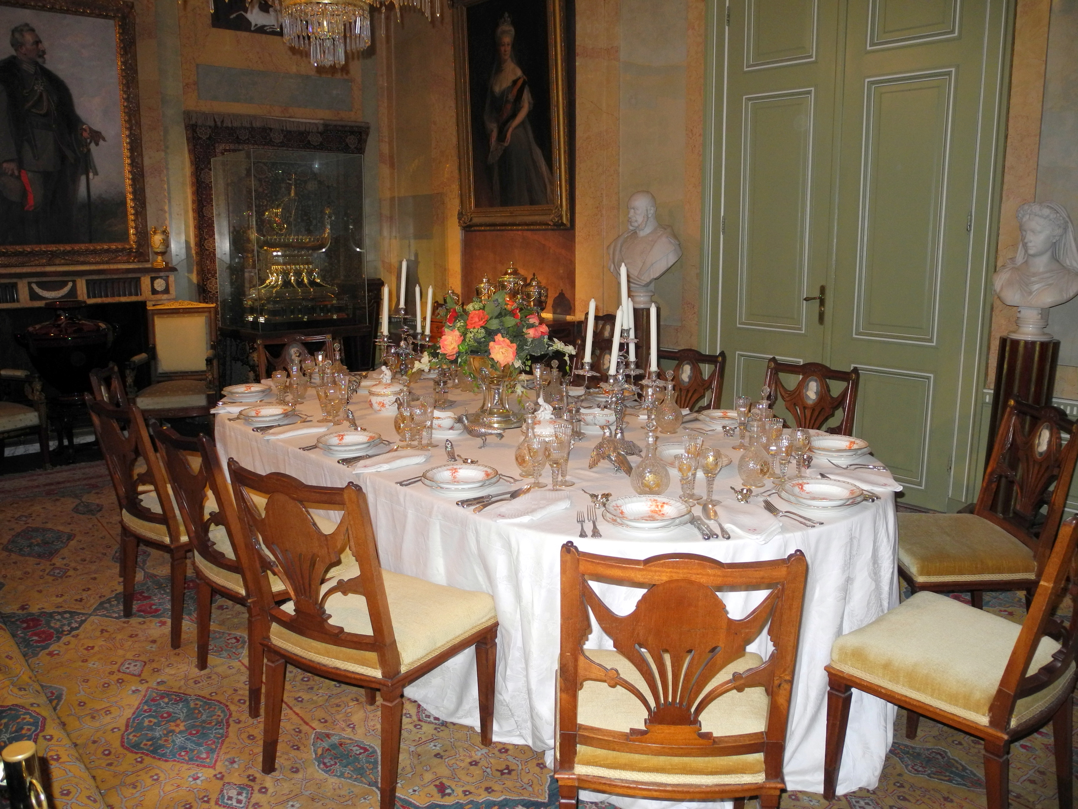 Dining room of Huis Doorn, a castle in Doorn. The painting on the left depicts emperor Wilhelm II, the one on the right depicts his first wife, Princess Augusta Viktoria.